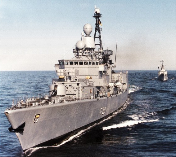 The German frigate Köln (F 211) underway during the NATO exercise "North Star '91", circa in September 1991.